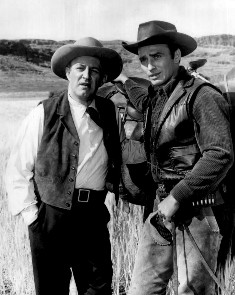 Photo of Lee J. Cobb as Judge Garth and James Drury as the Virginian from the television program The Virginian.